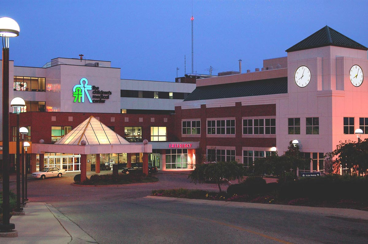 Night Shot